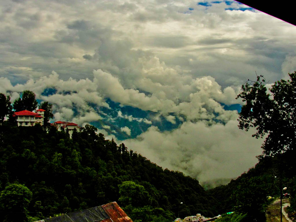 A view from our window at a guest house in Massourie in July 2011. When we woke up after a very rainy night, we were greeted by clouds engulfing the hill.